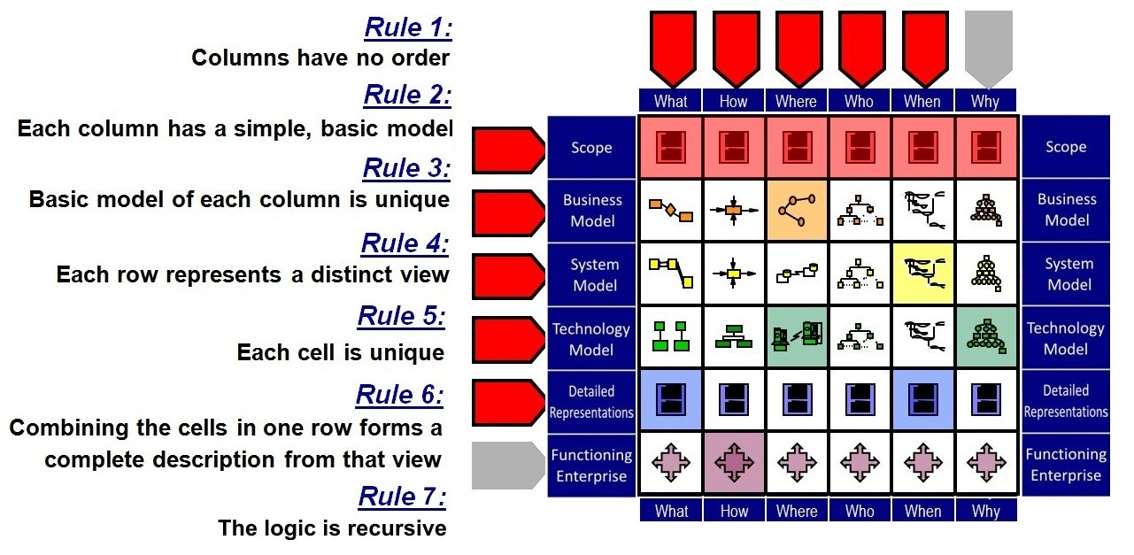 Zachman Framework Rules based on File:Zachman Framework Rules.jpg